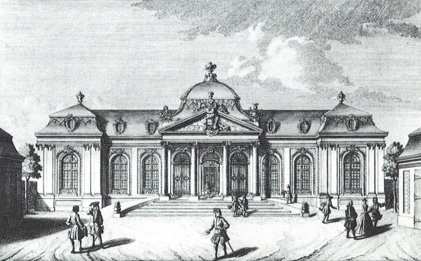 The Palais Althan in Vienna's I. district Innere Stadt (Vienna) at Ungargasse #63.